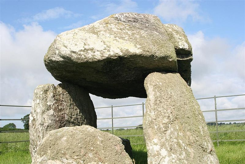 Bodowyr burial chamber, Anglesey